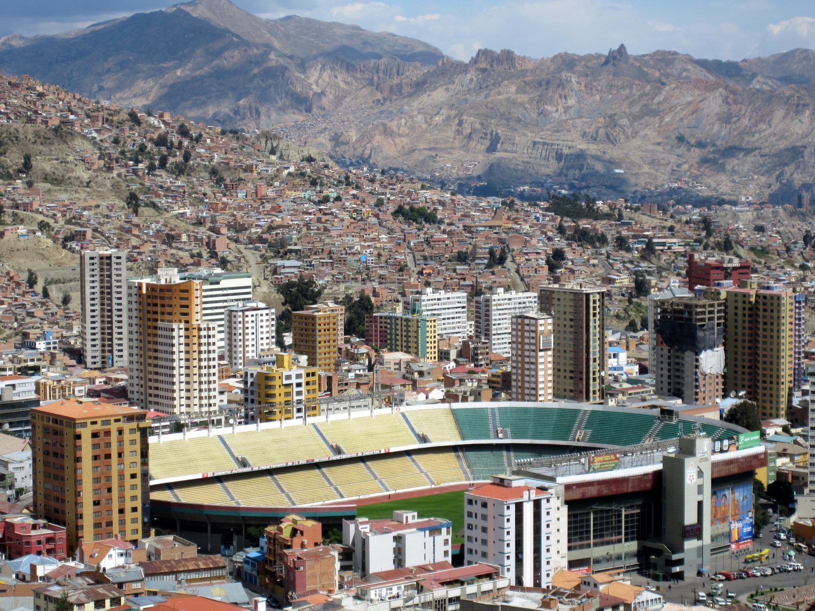 the stadium, Miraflores Bajo from Killi-Killi